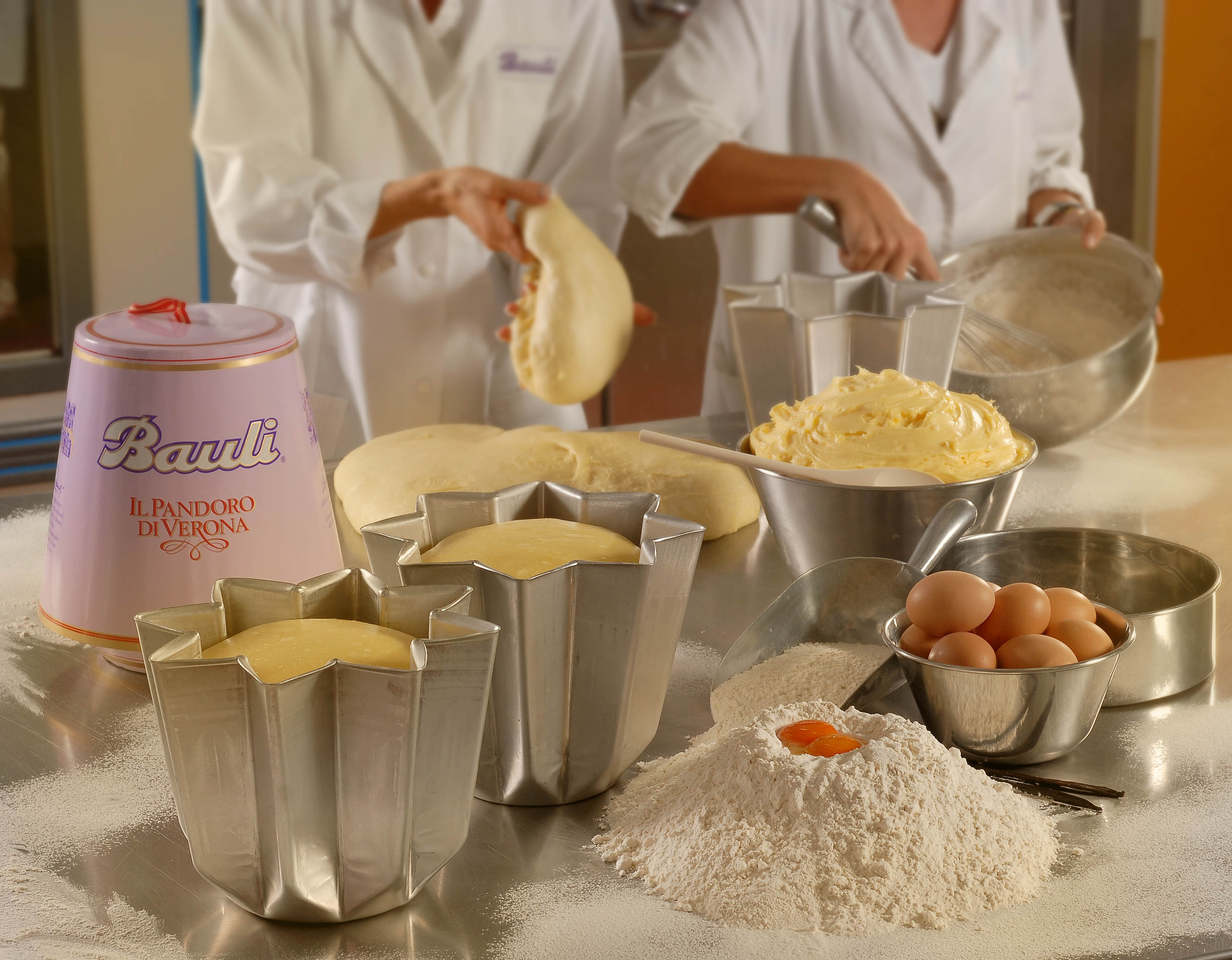 The making of a pandoro in a Bauli laboratory, as it appeared to visitors of the event Science in Pandoro. This event was part of the 2007 Festival della Scienza, a science festival held annually in Genoa, Italy.